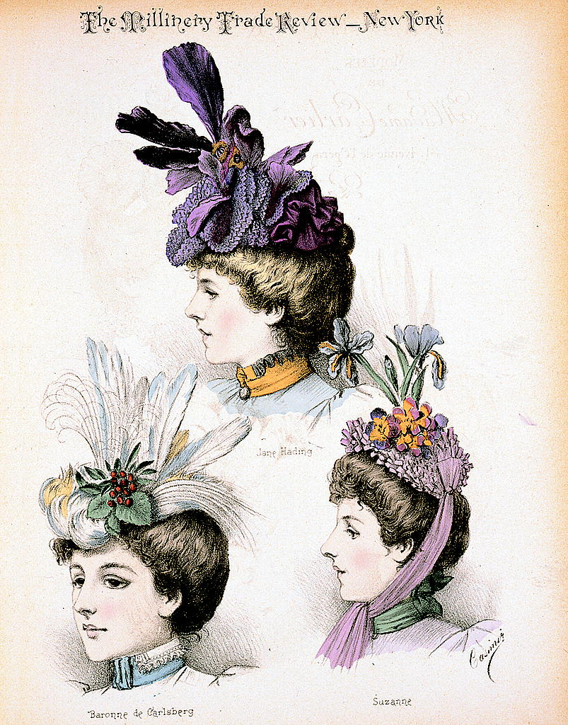 "Modelès de Madame Carlier". Library of Congress description: "Fashion plate showing three bust portraits of Jane Harding, Baronne de Carlsberg, and Suzanne, actresses at the Gymnase theater, Paris, wearing hats designed in the Paris establishment of Madame [Émilie] Carlier." Illustration from "Millinery Trade Review", Millinery associates, inc., New York, February 1897, plate 4. Published in "American women : a Library of Congress guide for the study of women's history and culture in the United States", edited by Sheridan Harvey [et al.], Washington : Library of Congress, 2001, p. xxiii.